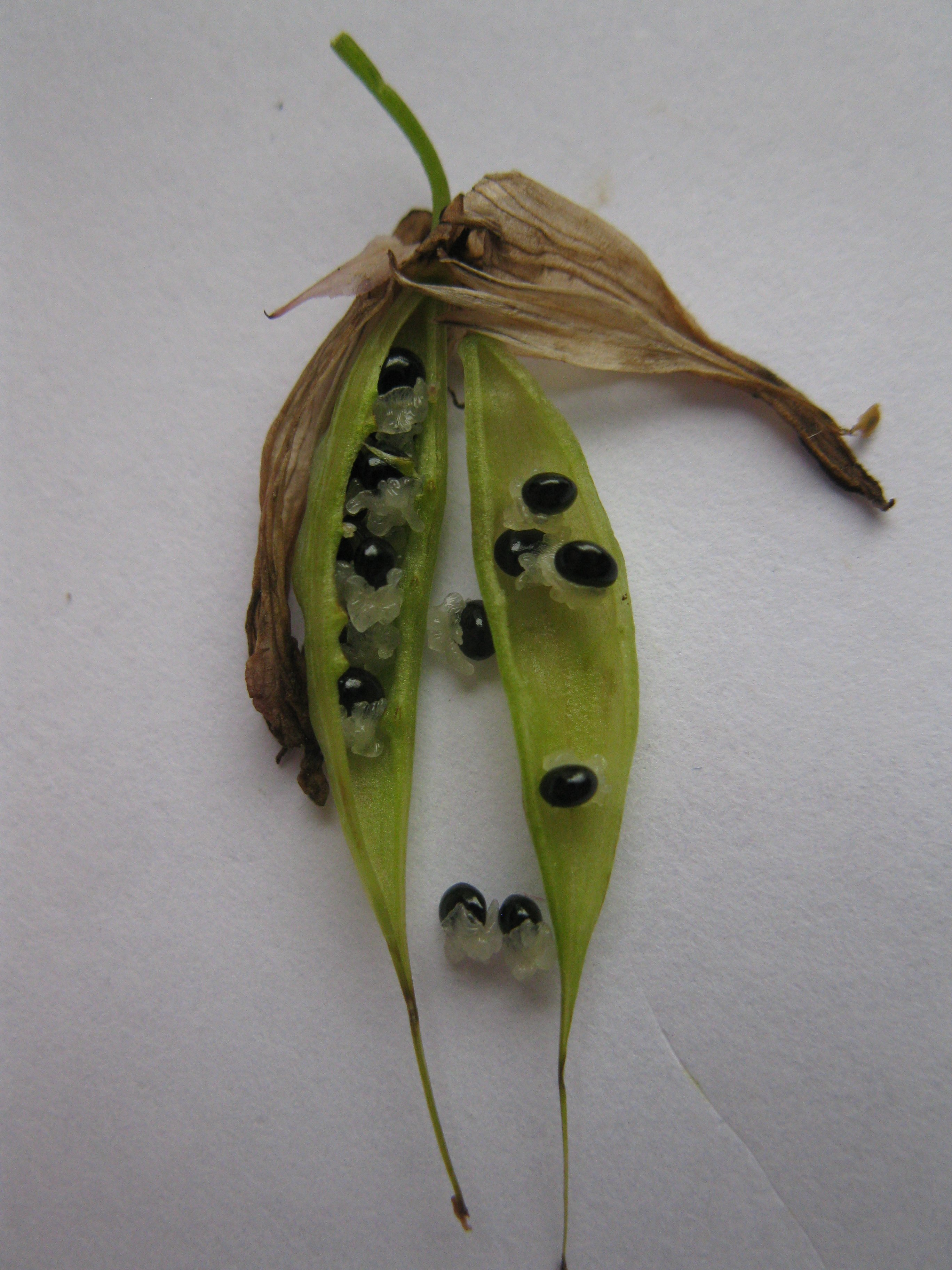 Split capsule of turkey corn or eastern bleeding-heart (Dicentra eximia), showing ripe black seeds with elaiosomes.